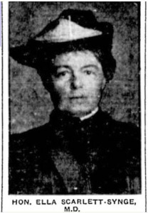 Ella Campbell Scarlett (22 November 1864 - 1937) was an English physician who became the first woman medical practitioner in the state of Bloemfontein